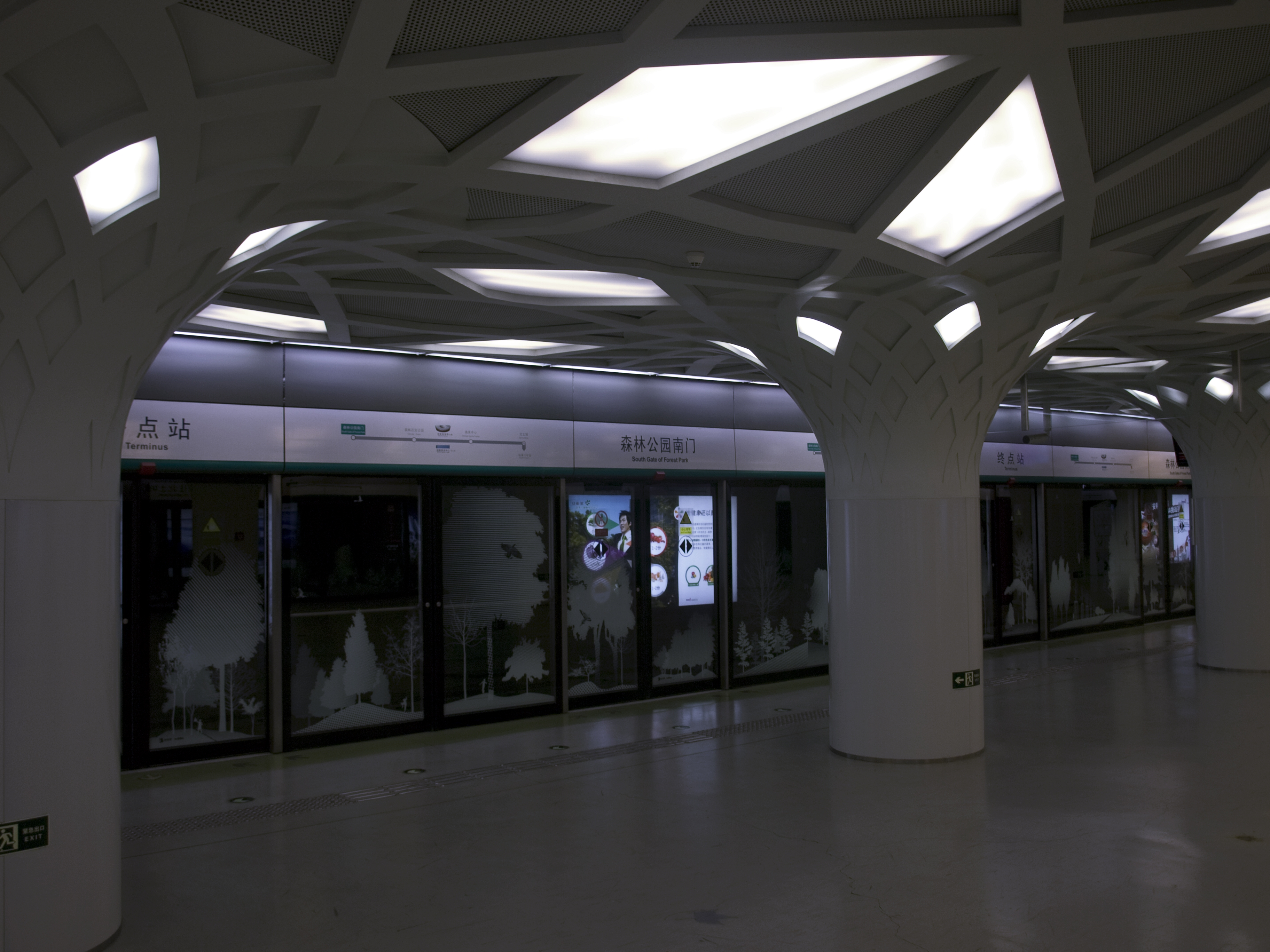 South Gate of Forest Park station, Beijing Subway